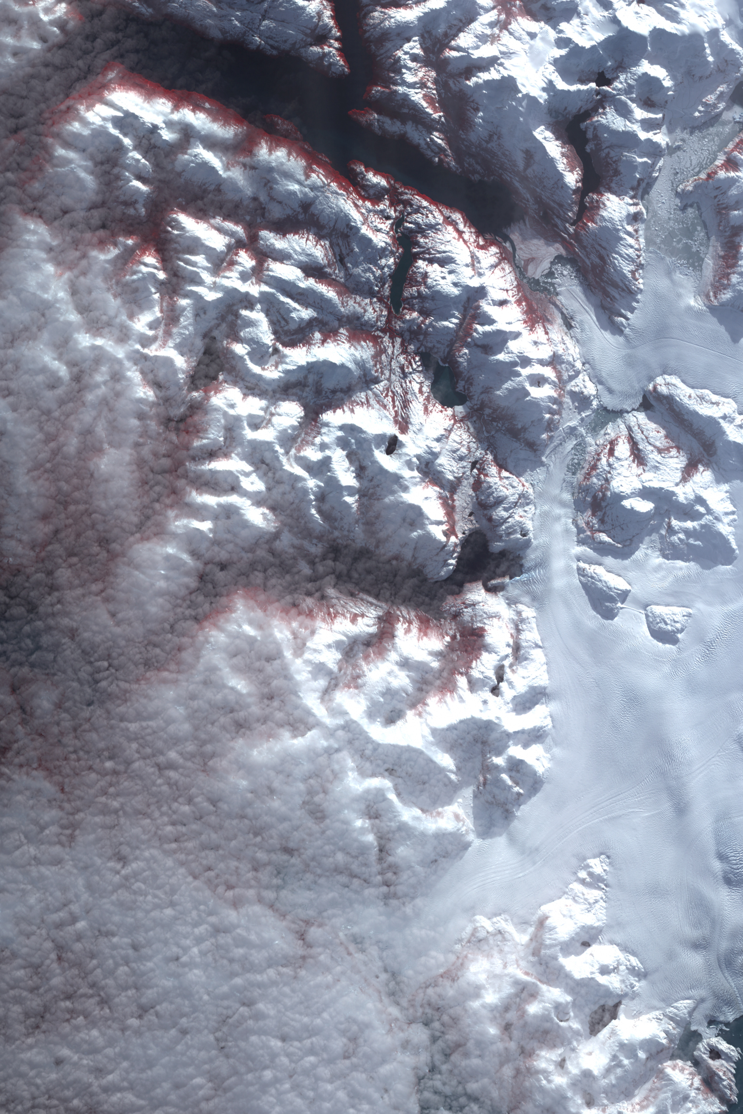 The Advanced Spaceborne Thermal Emission and Reflection Radiometer (ASTER) instrument on NASA’s Terra satellite captured the top image on June 23, 2007, showing a crater that the lake had occupied. In this image, the crater lies mostly in shadow, due to the low angle of the Sun during the Southern Hemisphere’s winter. Despite the shadows, contour lines around the lake show where the ground level is lower than the surroundings. East of the drained lake, water still appears near the tongue of Glaciar Bernardo. In this image, made from a combination of visible and infrared light detected by ASTER, red indicates vegetation, and patches of red peek through the snow cover. ASTER acquired the bottom image on April 4, 2007, when the lake was still in place. In this image—acquired in the Chilean autumn—both the lake and a nearby tributary appear full, shown by the blue-tinted water. Vibrant red, lush vegetation covers the landscape.